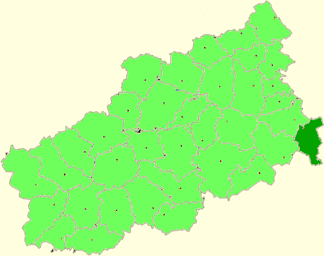 Tver Oblast map by Al Silonov